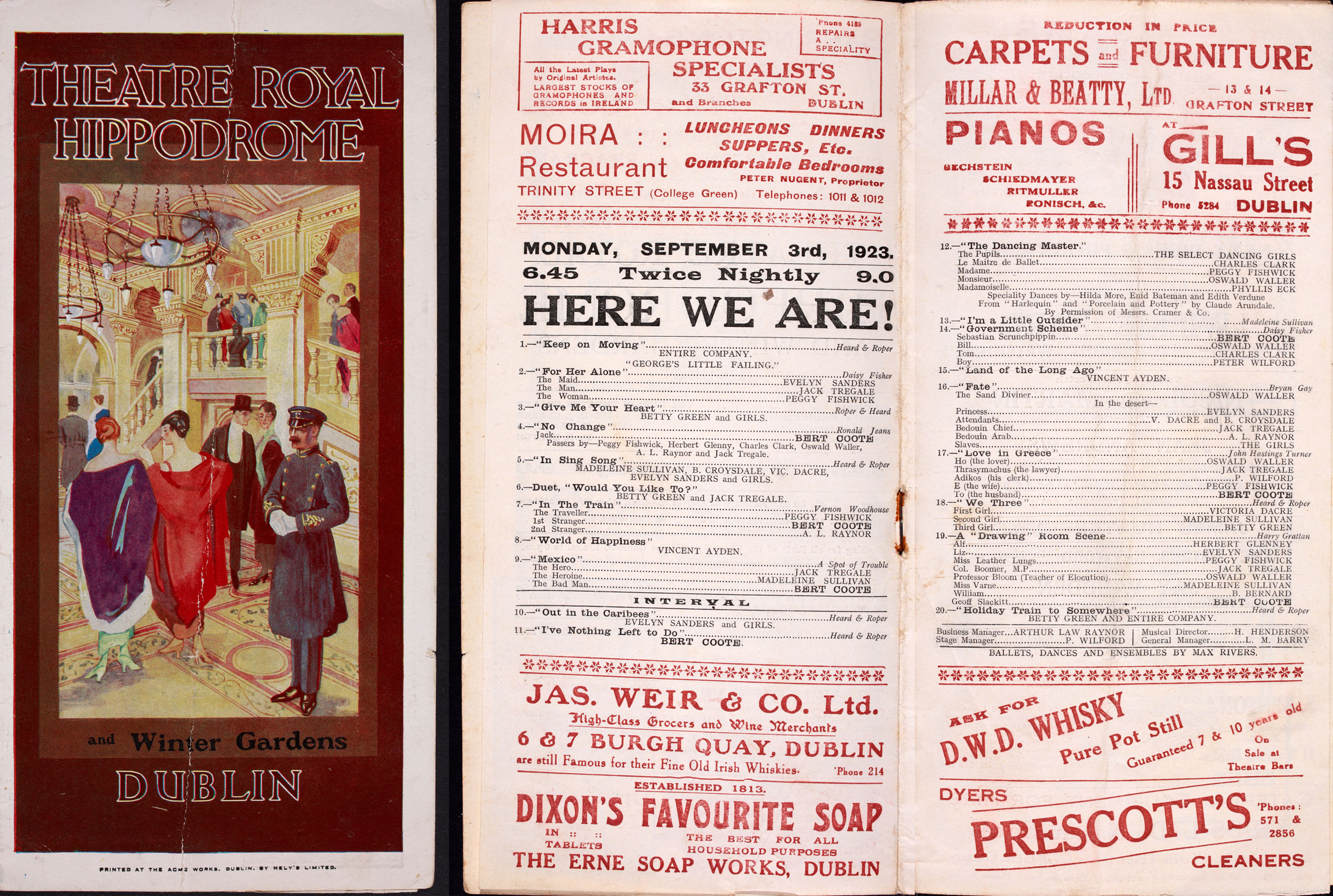 This is the cover and bill of fare for the Variety Show Here We Are! at Dublin's Theatre Royal 90 years ago today. If any of you would like to see contemporary ads from the 8-page programme (including Maxwell and Renault car prices at that time), then go Mega Zooming... Date: Monday, 3 September 1923 Size: 23 x 12 cm Printed by: Hely's Limited at the Acme Works, Dublin NLI Ref.: EPH B305